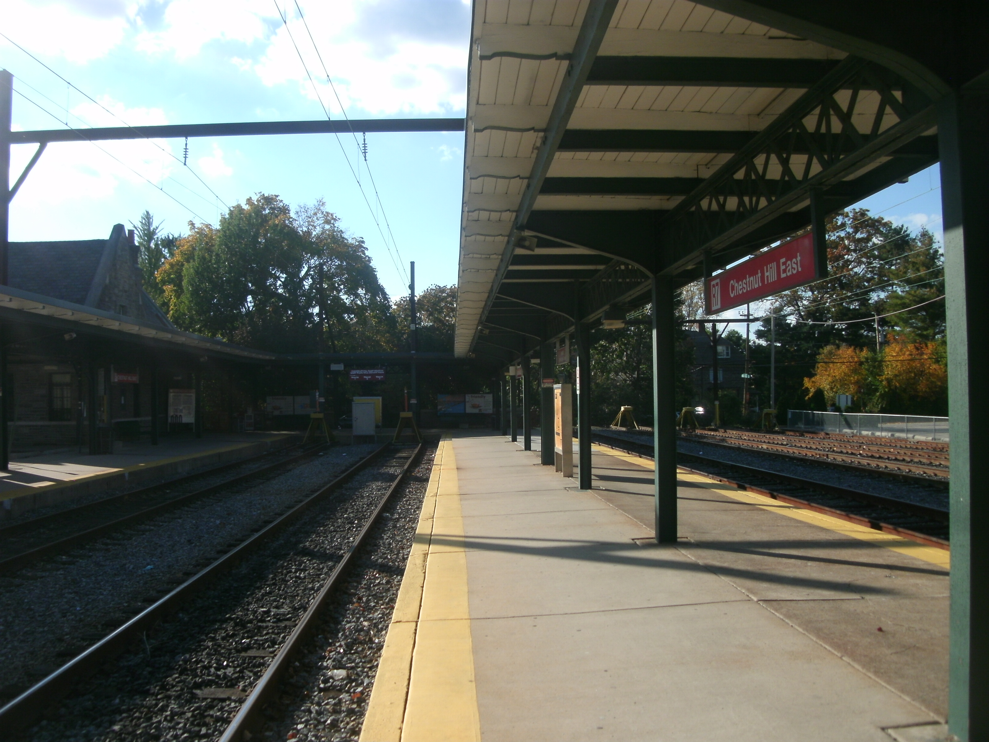 The Chestnut Hill East SEPTA Regional Rail station on the Chestnut Hill West Line in Philadelphia, Pennsylvania.